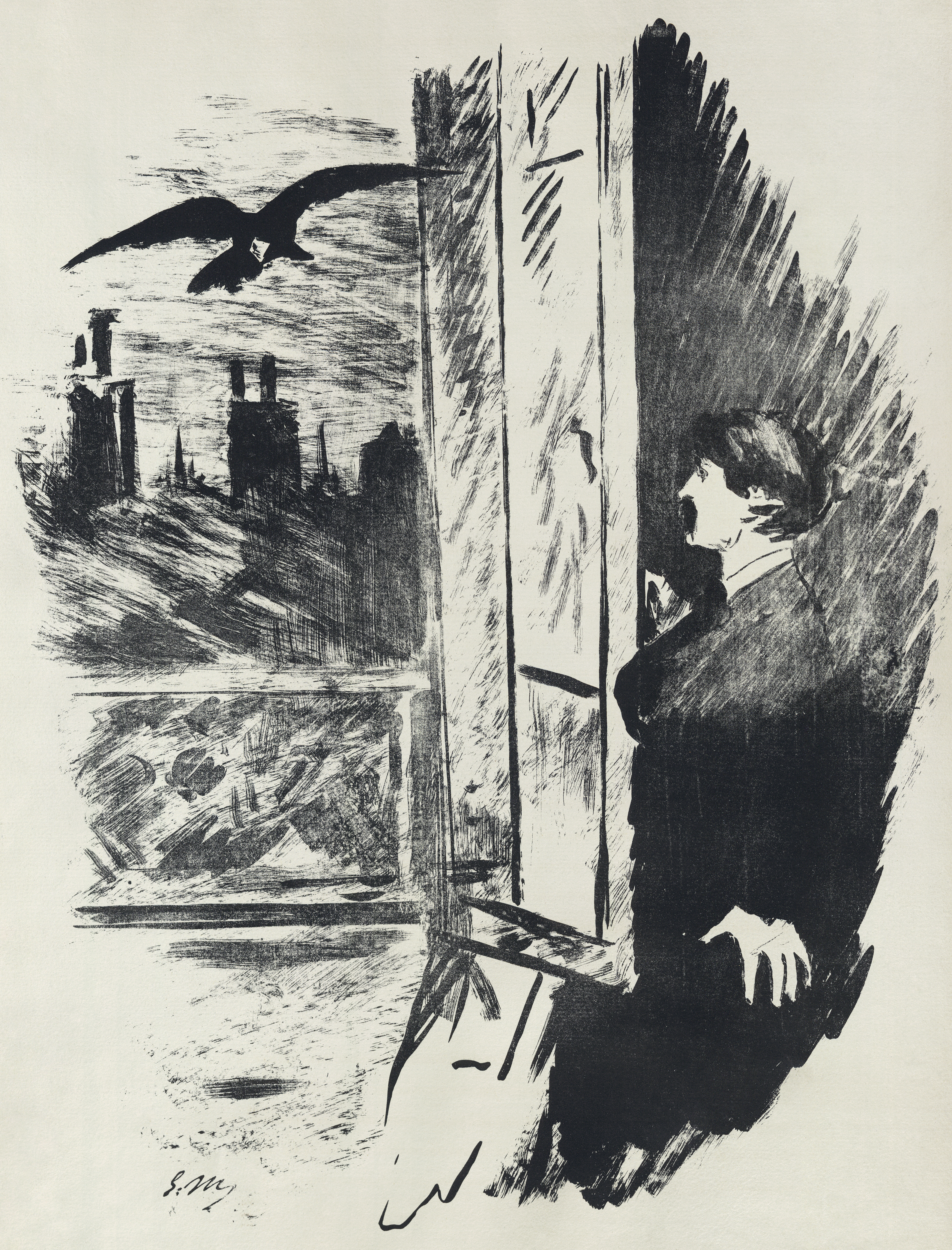 Illustration by Édouard Manet for a French translation by Stéphane Mallarmé of Edgar Allan Poe's "The Raven". Part 2 of 4 full page plates (two smaller illustrations at beginning and end omitted).